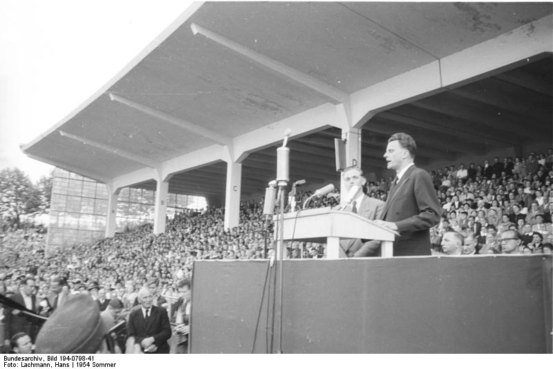 Billy Graham in Duisburg, Sommer 1954